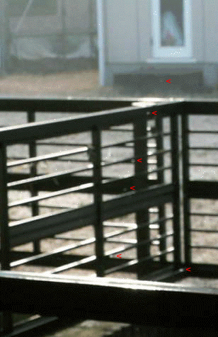 At Tsukuba, Ibaraki, Japan. Taken out of MOV movie, in which ice particles are easily distinguished glittering, this photo is to be paired with File:050207diamond dust2 Tsukuba Japan.png to identify the particles from artifacts.